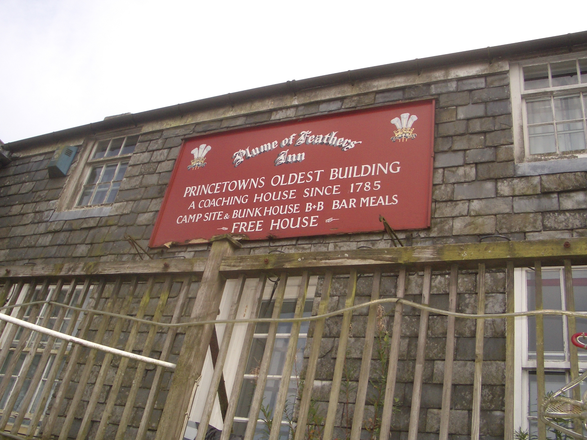 Sign outside the Plume of Feathers Pub, Princetown, Dartmoor, Devon, England